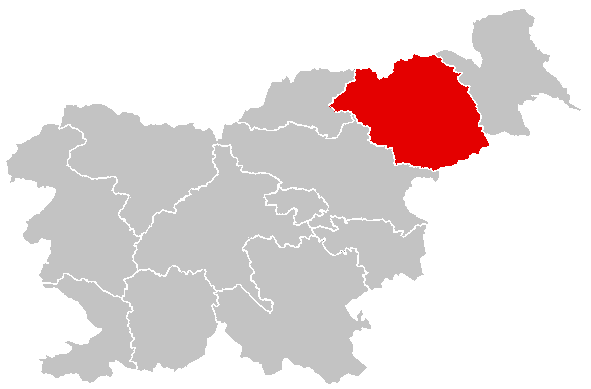 map showing the Podravska statistical region of Slovenia modified from File:Slovenian-regions-obalnokraska.png